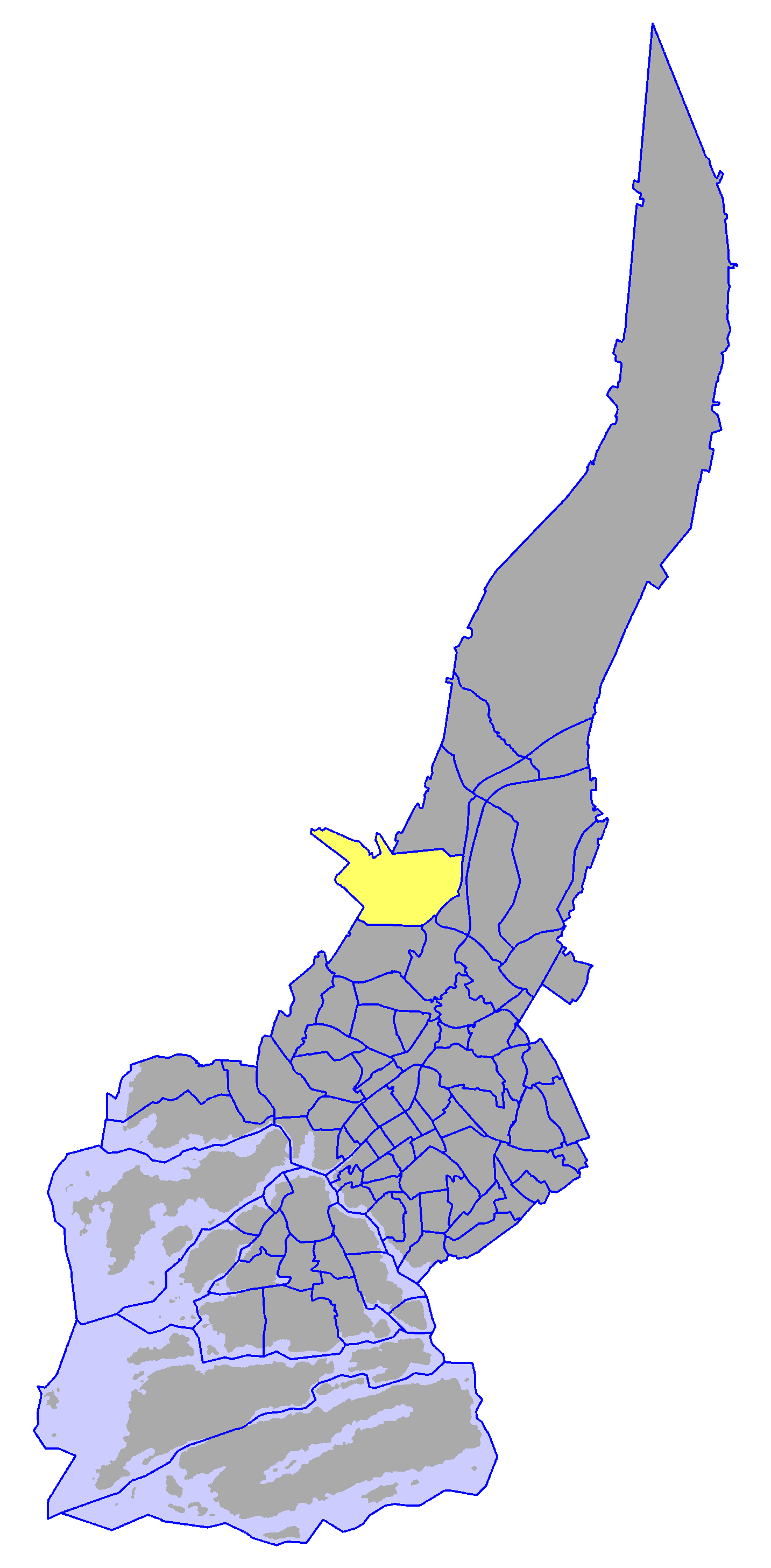 Location of the district of Lentokenttä (Turku airport), in Turku, Finland